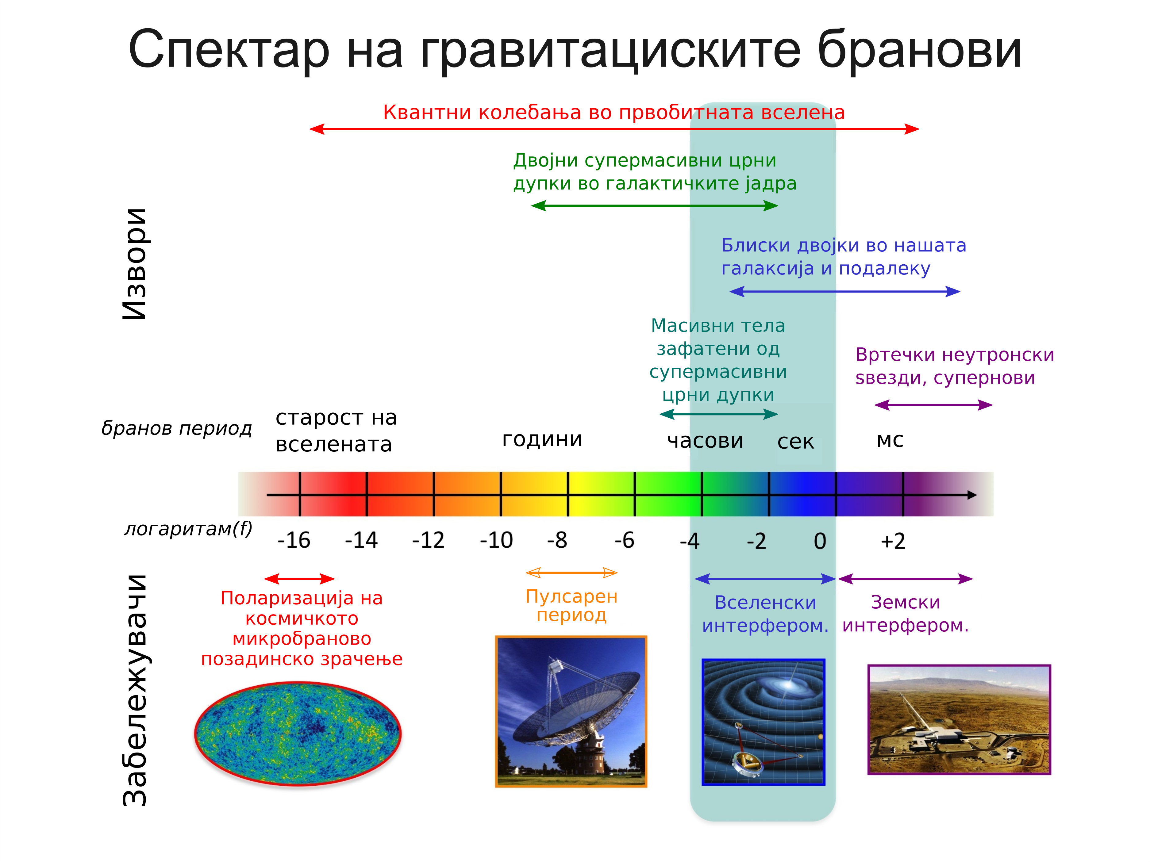 The gravitational wave spectrum, sources and detectors, with lables in Macedonian.